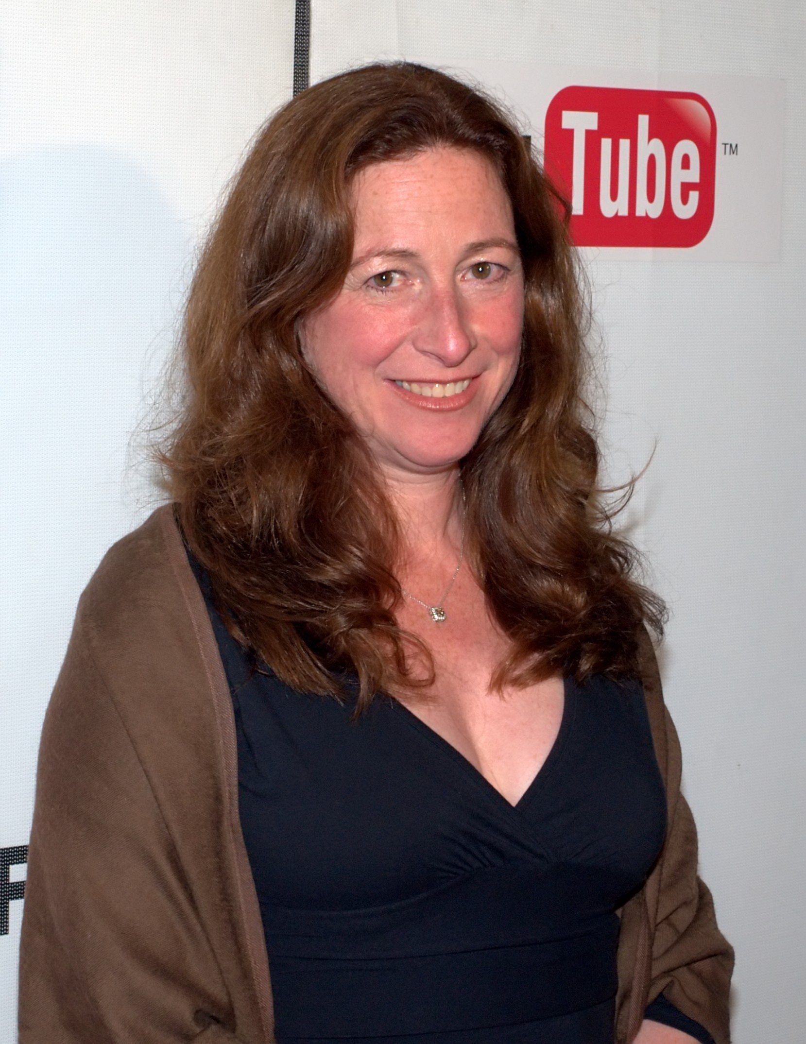 Deborah Scranton at the 2010 Tribeca Film Festival.